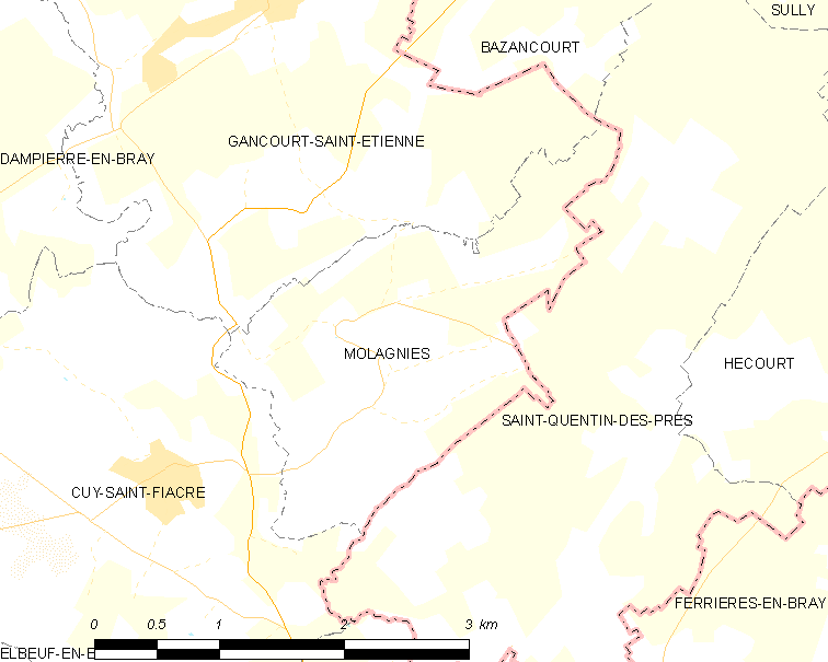 Map of French municipality Molagnies